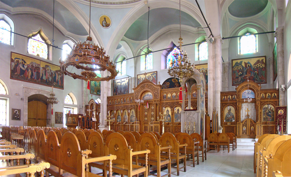 Church of Agios Titos, Heraklion, Crete, Greece.